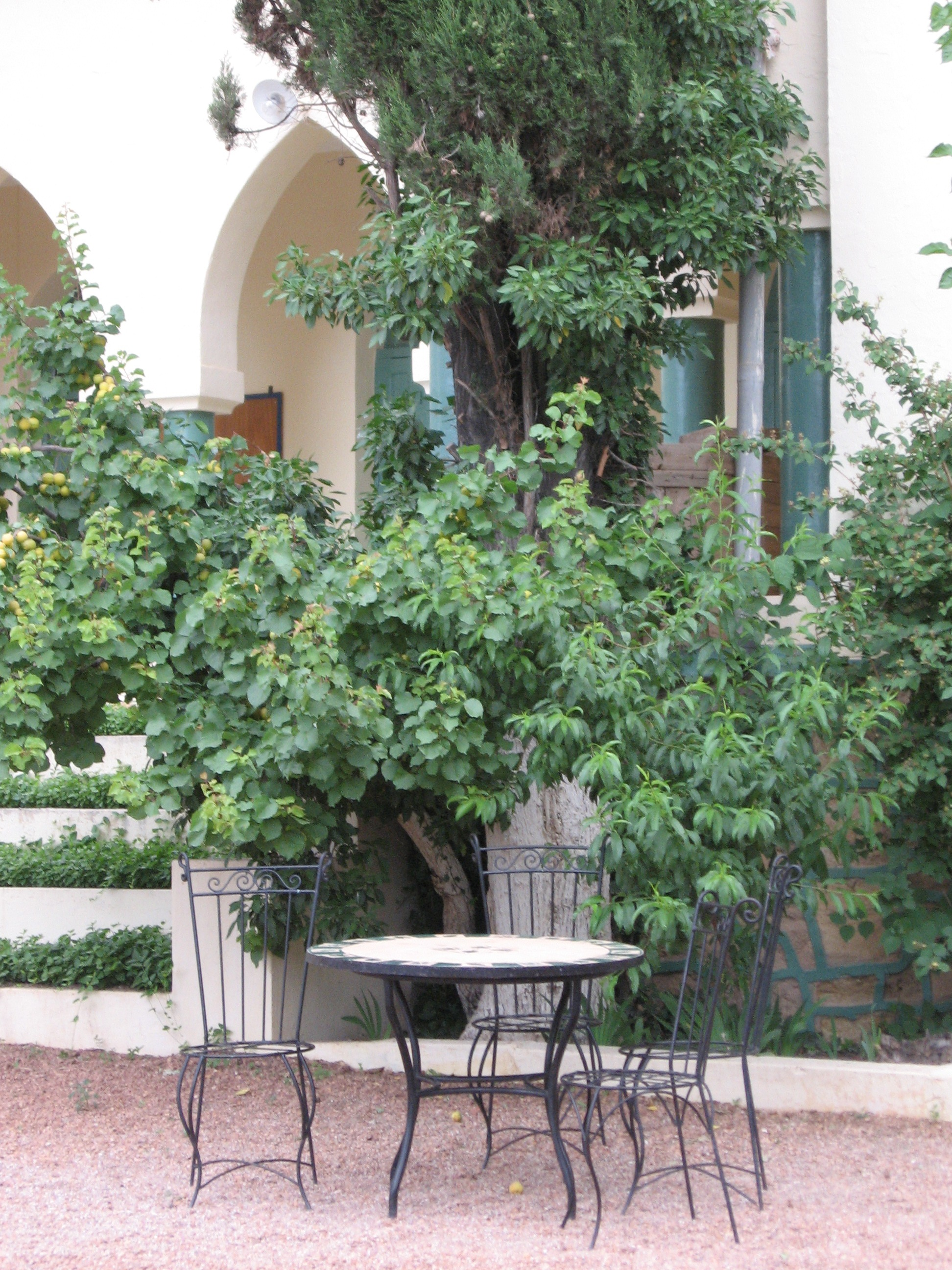 Centre Tarik Ibn Zyad, Amazigh cultural center, Midelt. Photograph taken by Wikipedia contributor InnocentsAbroad in June, 2006.